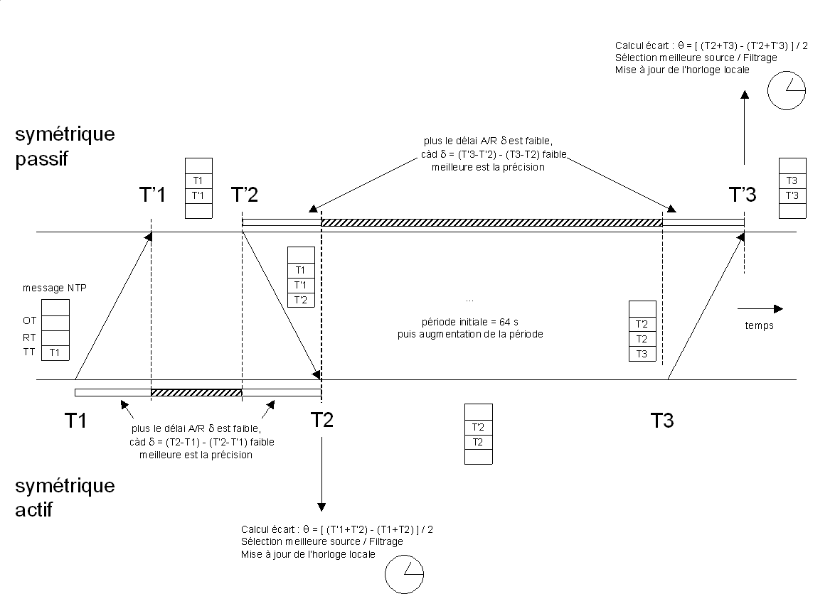 "active/passive symmetric" NTP paradigm description